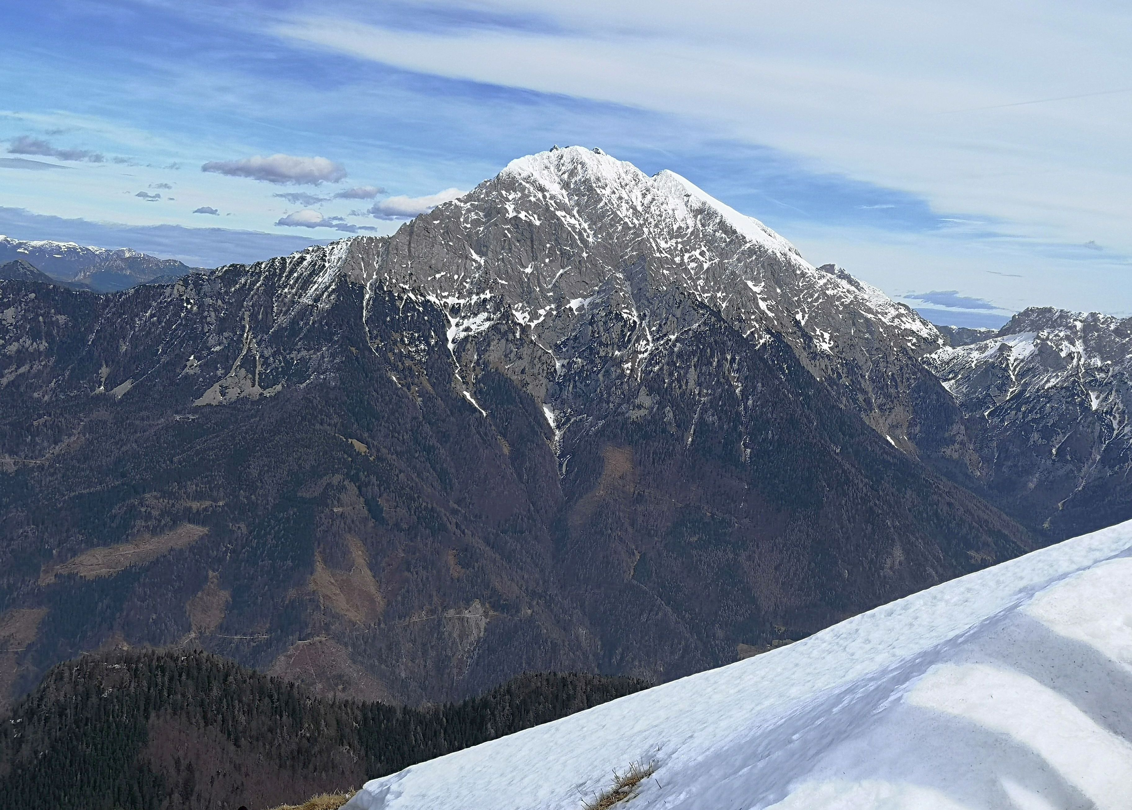 Grintovec (2558 m; the highest peak of the Kamnik–Savinja Alps) from Mt. Srednji Vrh (Zaplata).